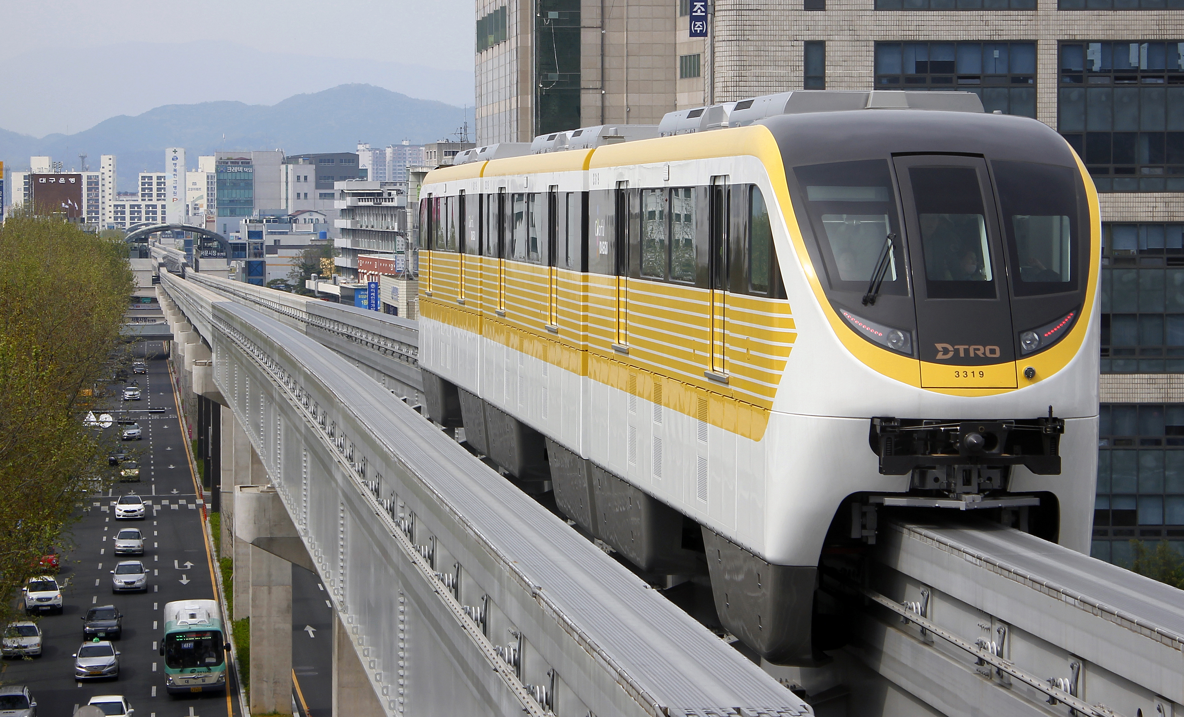 Daegu Metro Line 3 / Crop